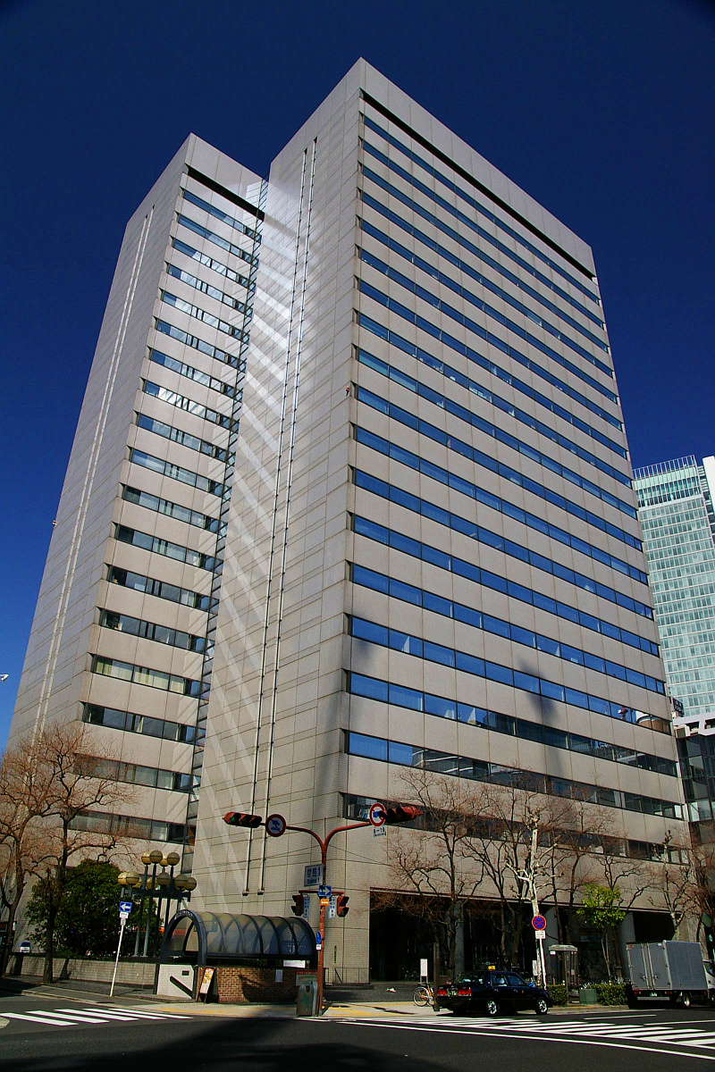 Kintesu Dojima Bldg, Osaka city, Japan